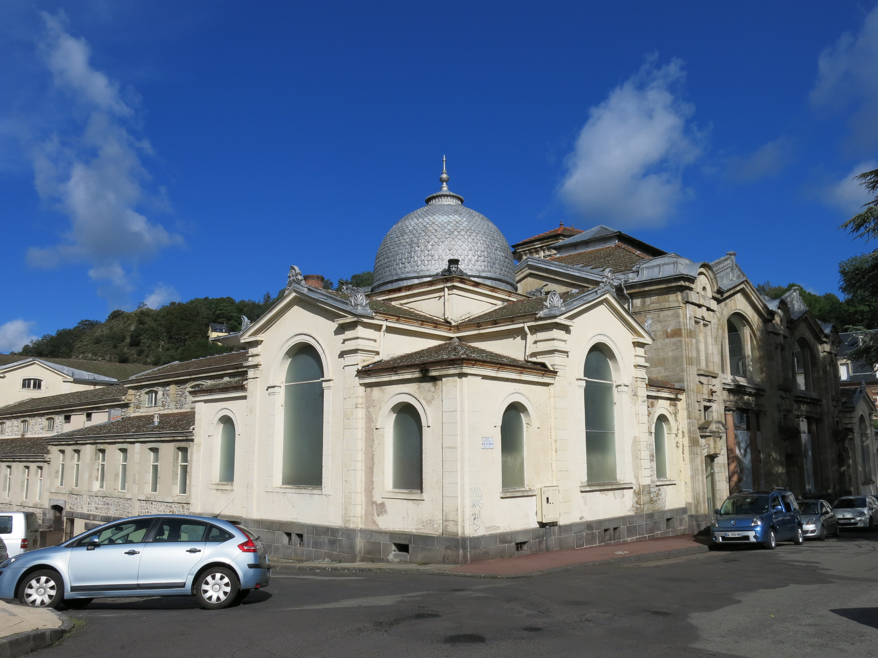 Grands Thermes in la Bourboule (Puy-de-Dôme, France).